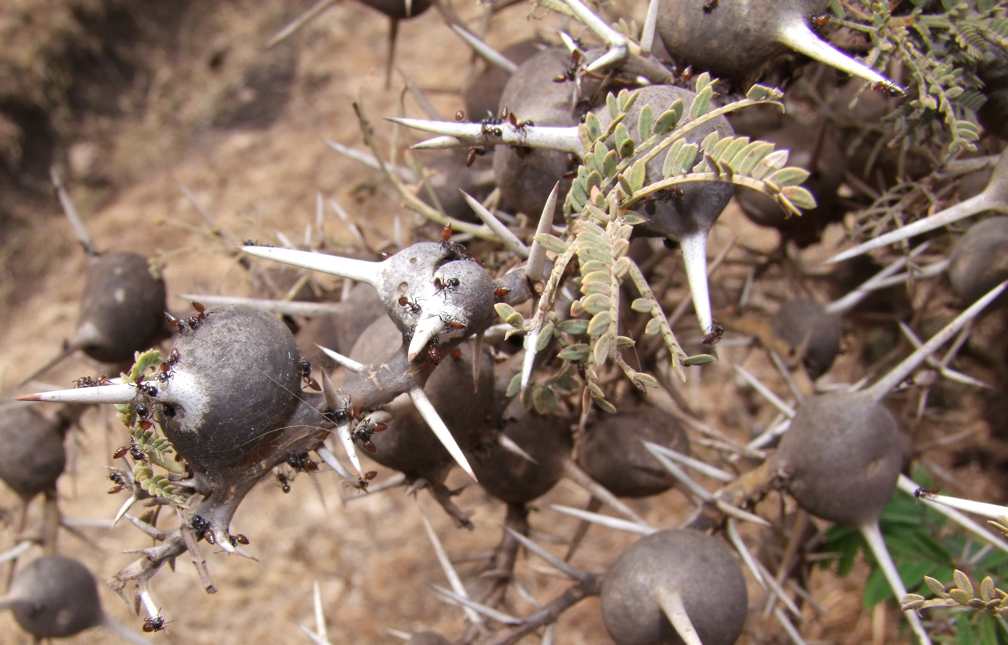 Crematogaster nigriceps ants in defensive demeanor on Acacia drepanolobium; picture taken in Ngorongoro Conservation Area, NW of the caldera